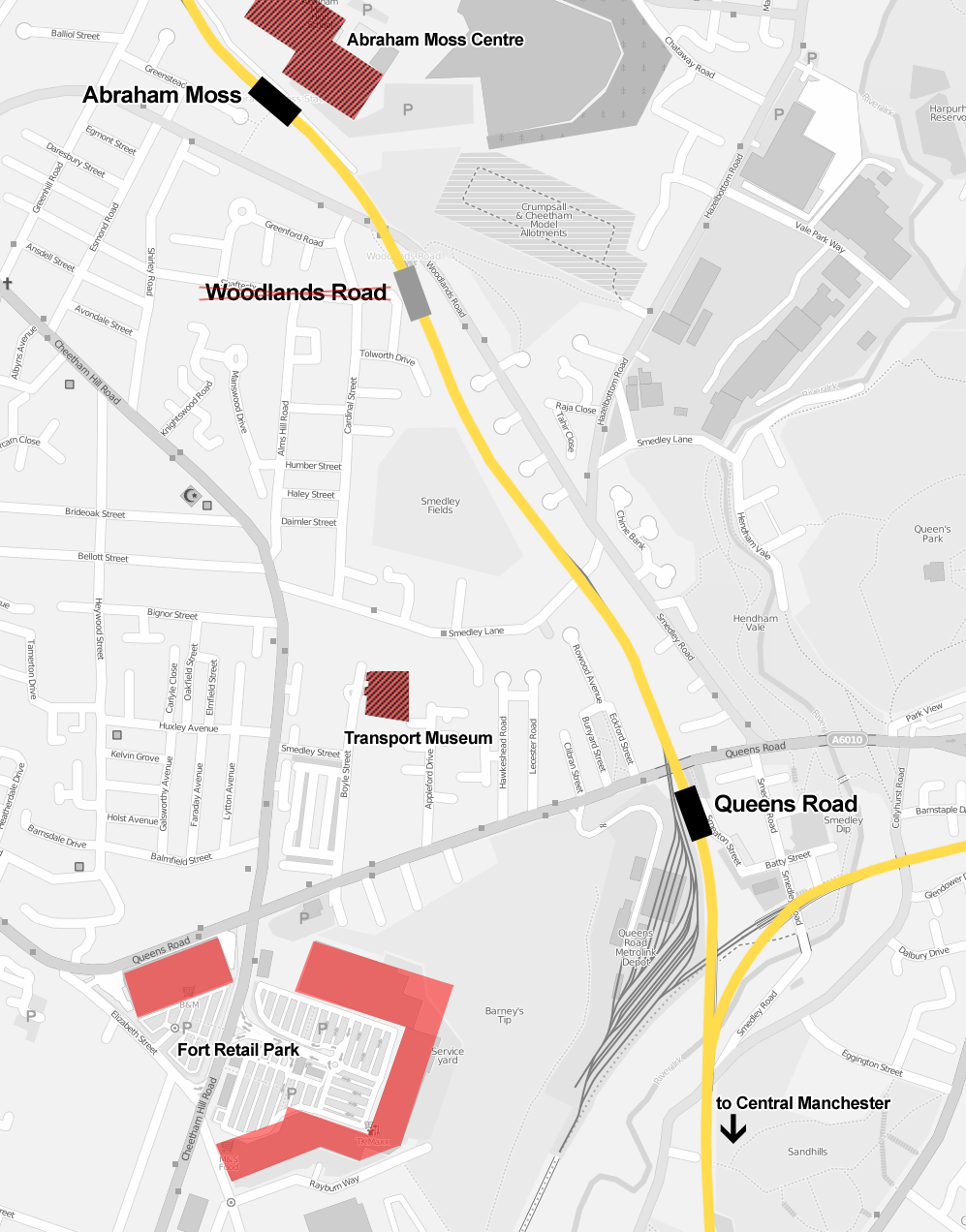 Map of the 2013 developments to the Metrolink network in the Abraham Moss area of North Manchester, UK, showing the two new tram stops at Abraham Moss and Queens Rd. and the Woodlands Rd station which is planned to close This map may be incomplete, and may contain errors. Don't rely solely on it for navigation.